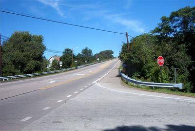 Route 66 hill showing the start of Gilpin Township, as seen from bordering Leechburg, PA. Taken by Clinton N. Godlesky. Personal Collection